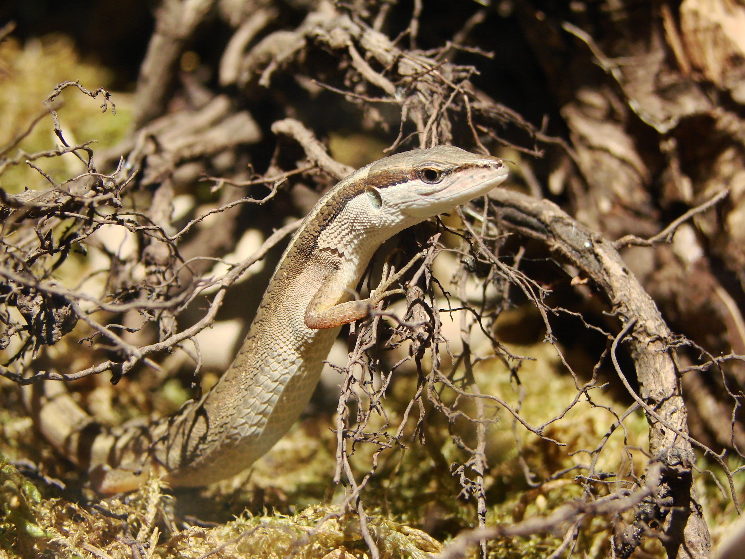 Picture taken in the zoo of Wrocław (Poland): Latastia longicaudata (Reuss, 1834)??